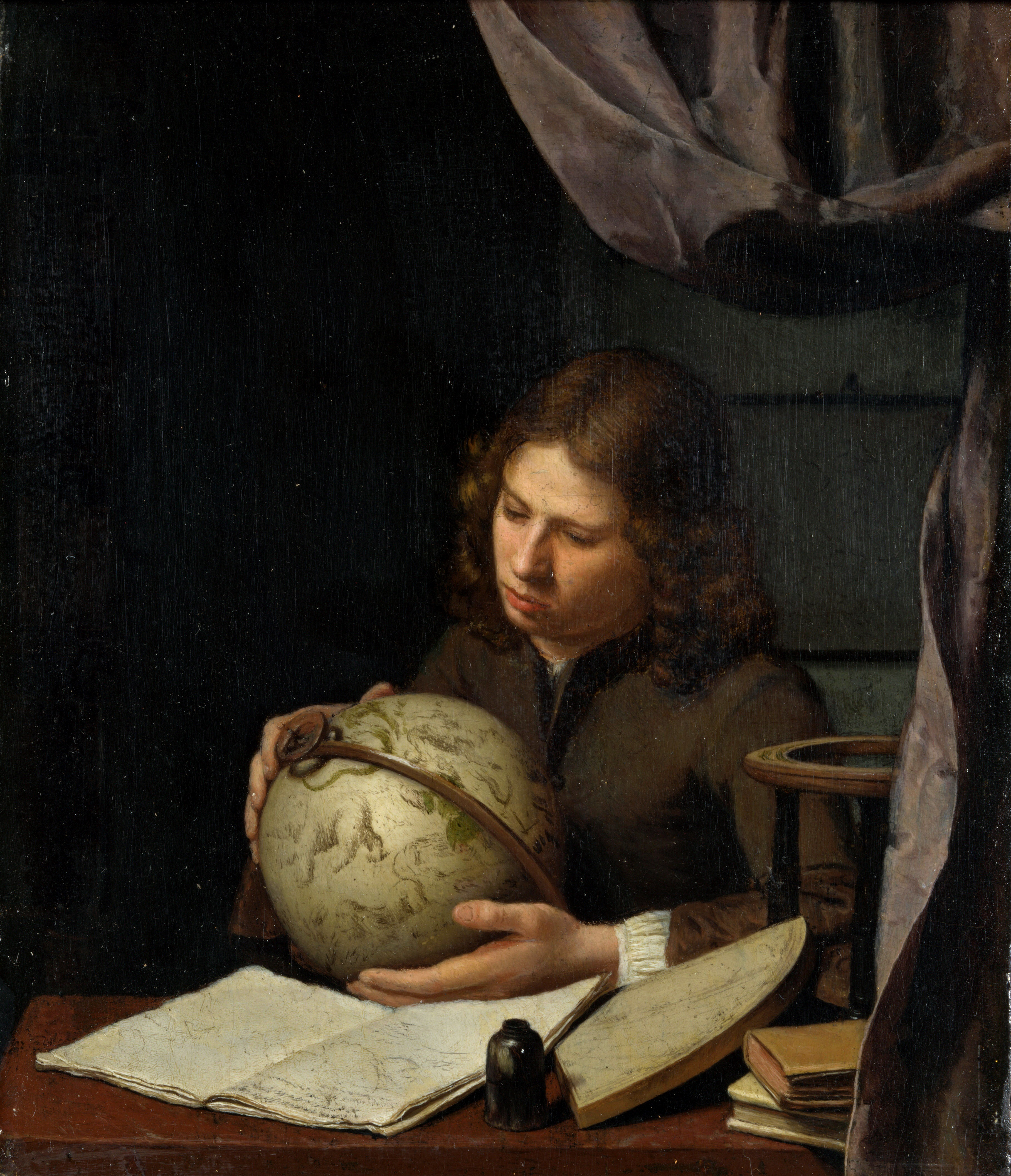 A young astronomer (National Gallery, 15,3 x12,7 cm)